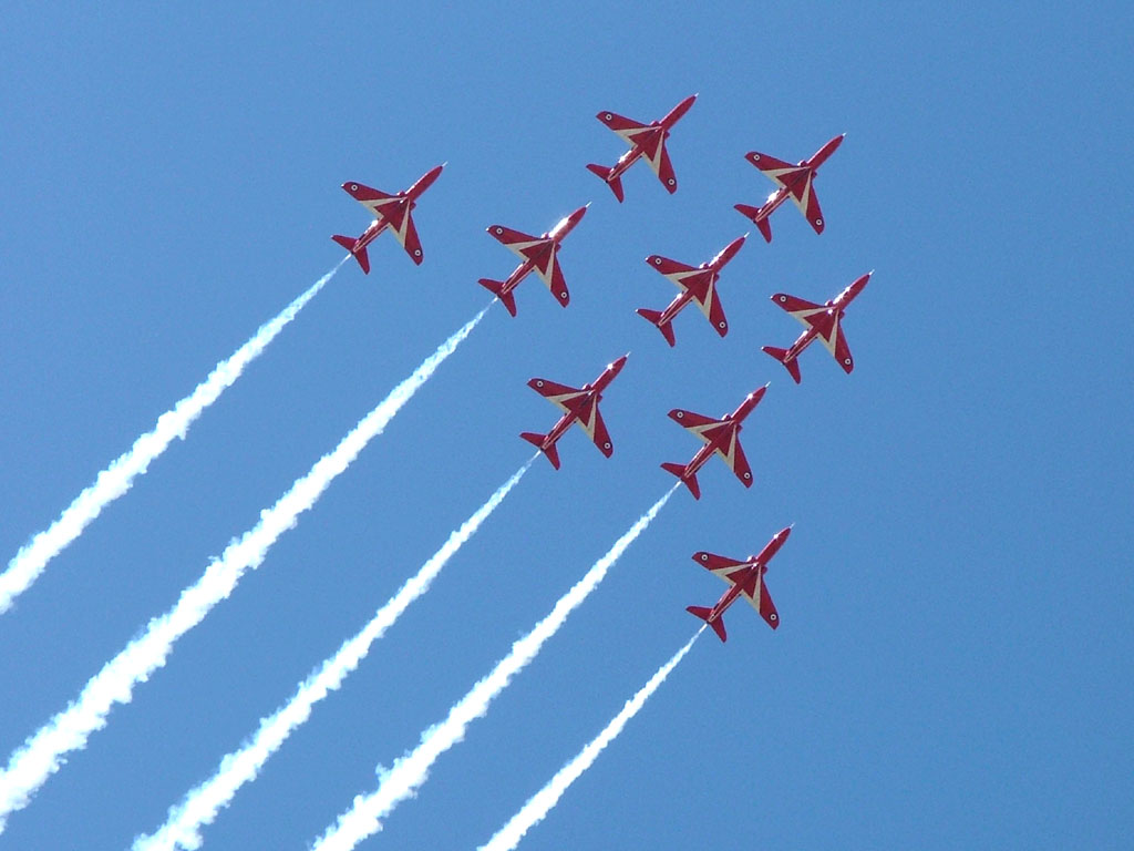 Red Arrows in "Apollo" formation at RIAT 2005.